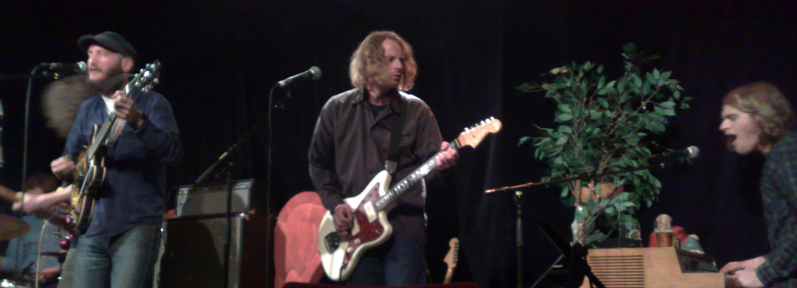 The Norwegian band Tellusalie on stage in Bergen